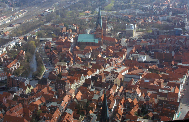 Aerial photograph of the south of Lüneburg's town centre with the Church of St. John, the water tower and the square, Am Sande. Lower Saxony, Germany